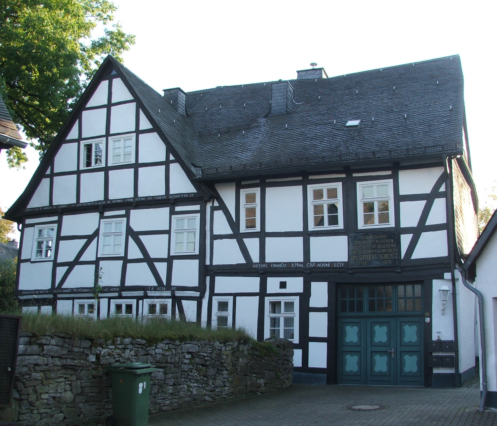 Geburtshaus von Seibertz (1788-1871), Brilon This image shows a heritage building in Germany, located in the North Rhine-Westphalian city Brilon.